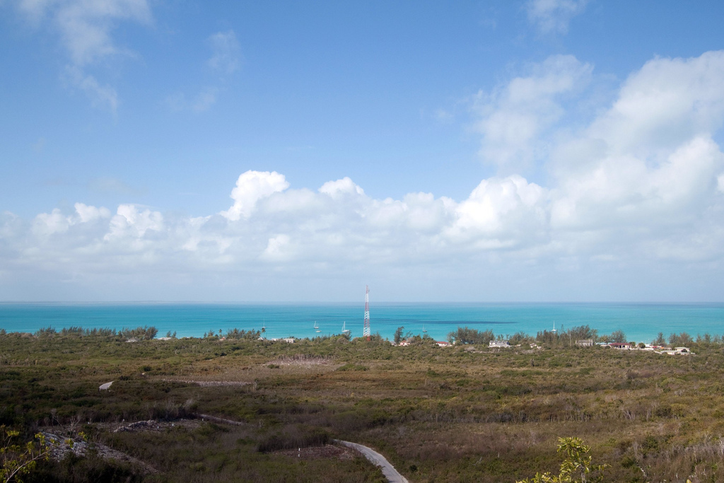 View from the top of Mount Alvernia, the highest point in the Bahamas.